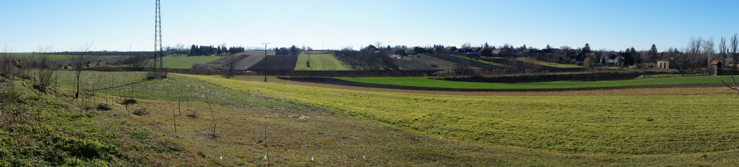 Calvary hill in Bajmok, Serbia